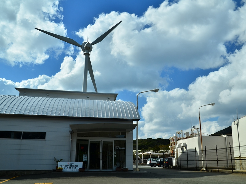 en： ja：八丈町中之郷にある東京電力の施設である「地熱博物館」 location: Hachijojima caption: TEPCO Hachijo Geothermal Museum